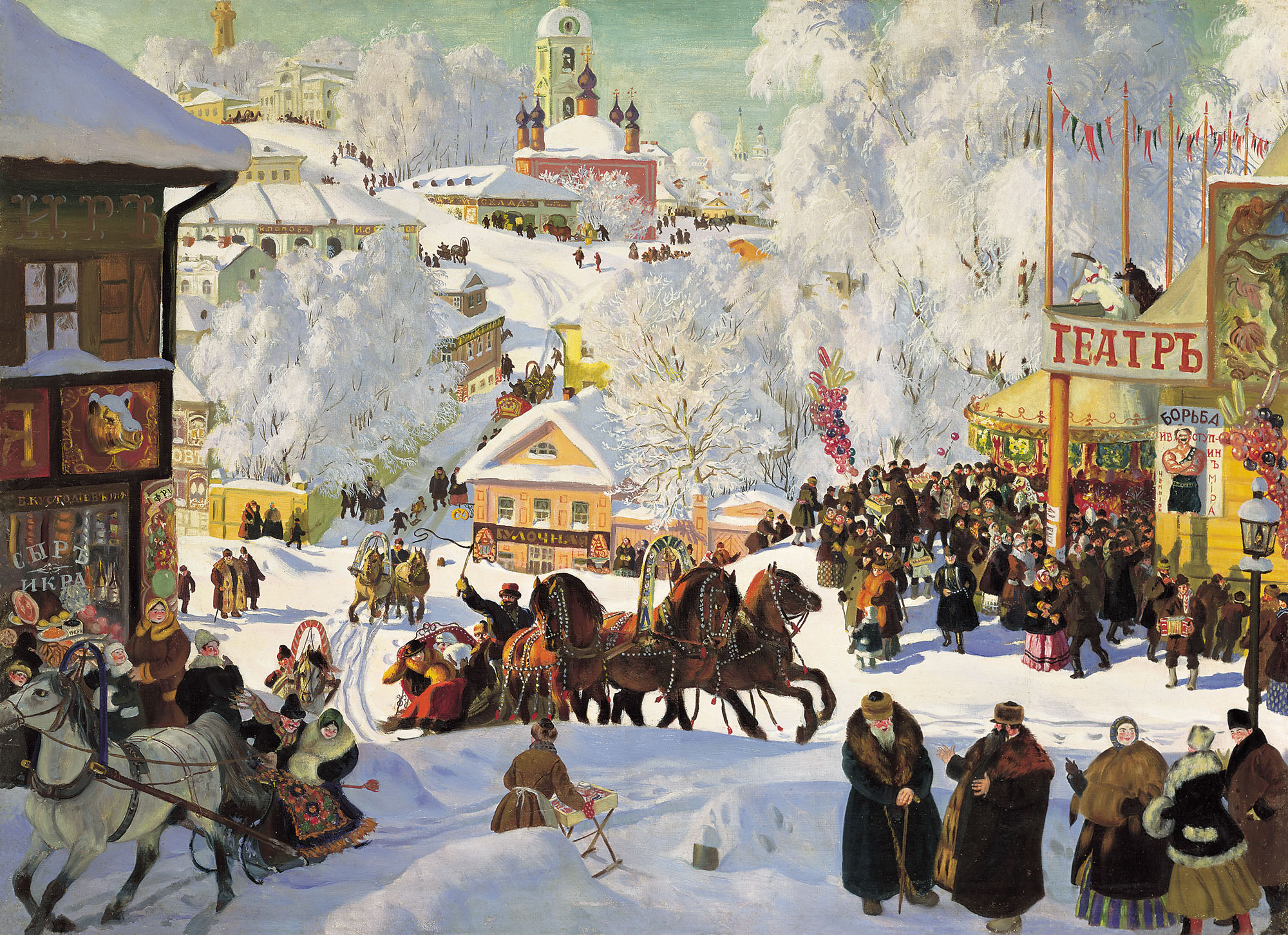 Depicts the Eastern Orthodox holiday Maslenitsa.